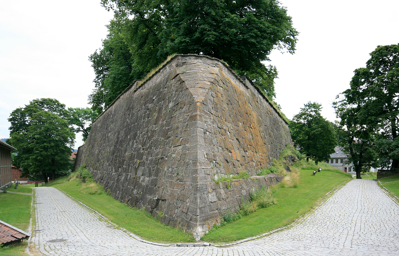 Point of Skarpenord bastion, Akershus castle, Oslo. Built 1592-1604.